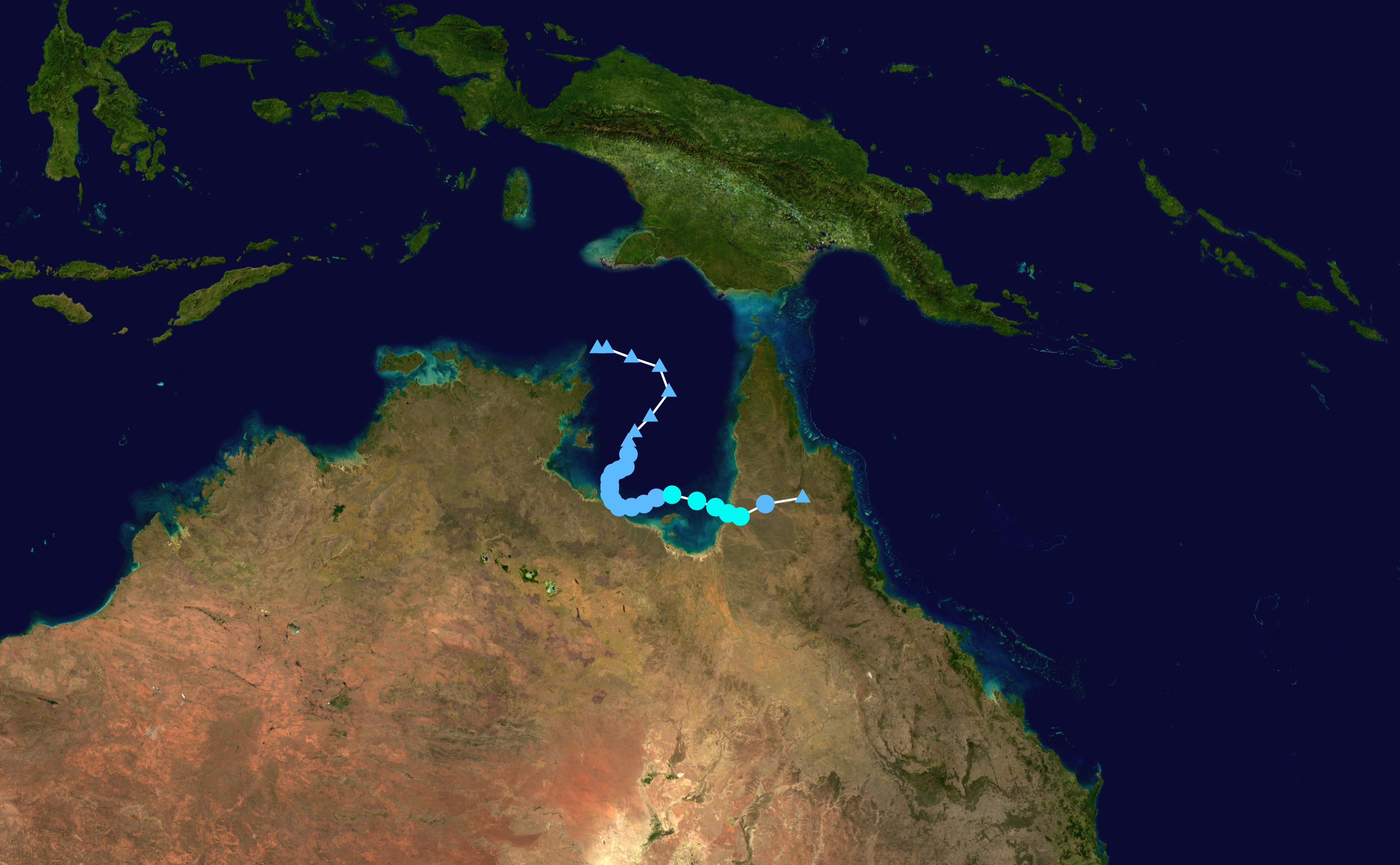 Track map of Tropical Cyclone Nelson of the 2006-07 Australian region cyclone season. The points show the location of the storm at 6-hour intervals. The colour represents the storm's maximum sustained wind speeds as classified in the Saffir–Simpson scale (see below), and the shape of the data points represent the nature of the storm, according to the legend below. Saffir–Simpson scale Tropical depression≤38 mph≤62 km/h Category 3111–129 mph178–208 km/h Tropical storm39–73 mph63–118 km/h Category 4130–156 mph209–251 km/h Category 174–95 mph119–153 km/h Category 5≥157 mph≥252 km/h Category 296–110 mph154–177 km/h Unknown Storm type Tropical cyclone Subtropical cyclone Extratropical cyclone / Remnant low / Tropical disturbance / Monsoon depression